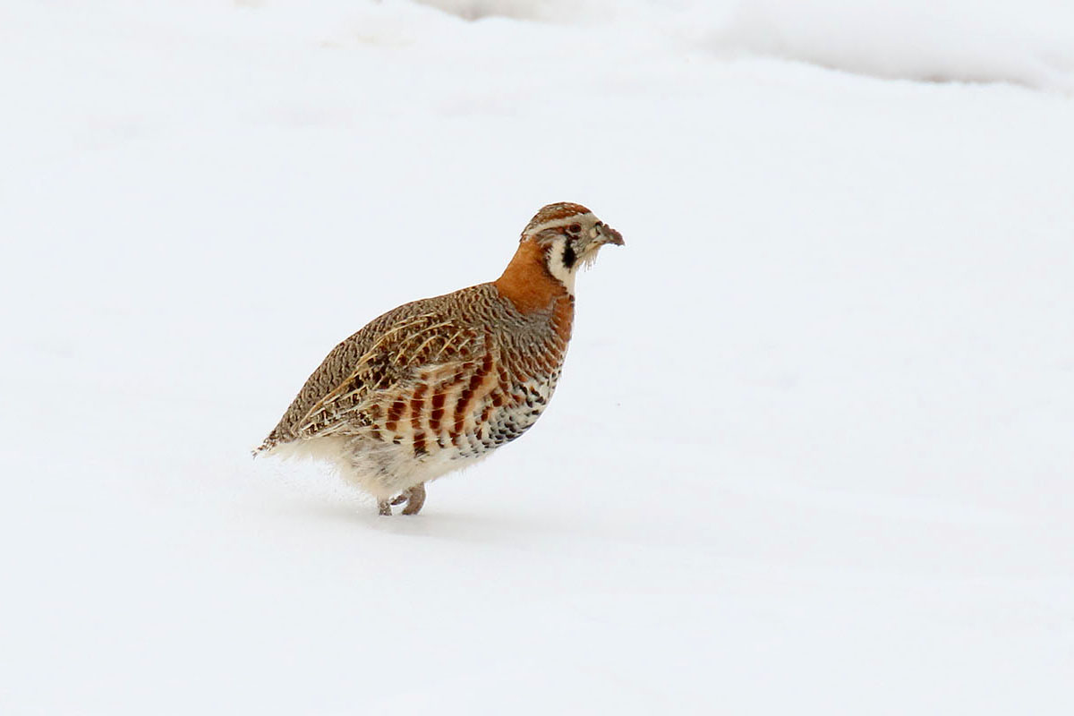 Tibetan Partridge Perdix hodgsoniae, Hemis National Park, Ladakh, India.